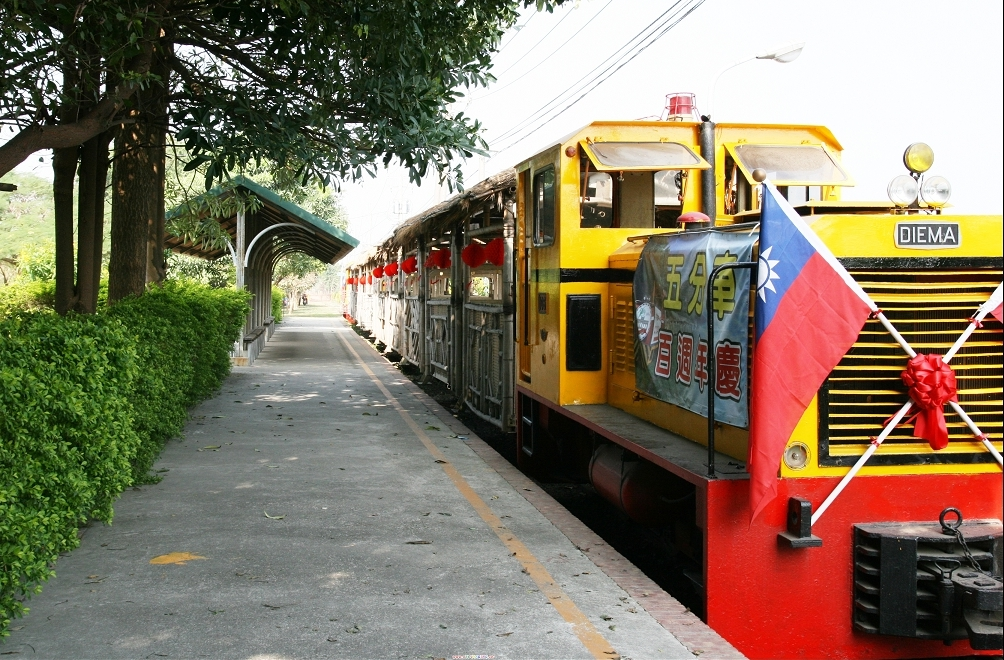 Taiwan Sugar Corporation Kaohsing Tourism Floral Park